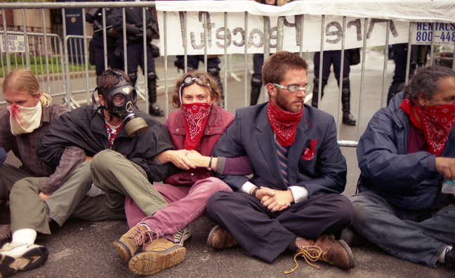 Washington DC : A16 2000 Worldbank/IMF protestsred bandanas, goggles, gasmask